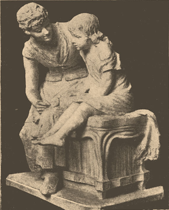 Illustration from Brockhaus and Efron Jewish Encyclopedia (1906—1913)